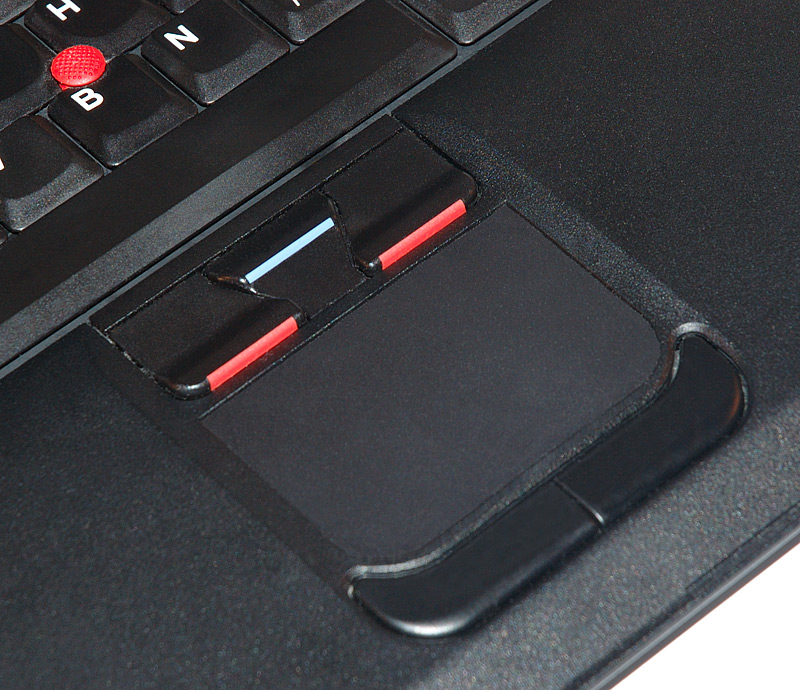 This image shows a touchpad and a trackpoint of a IBM ThinkPad R51 laptop.